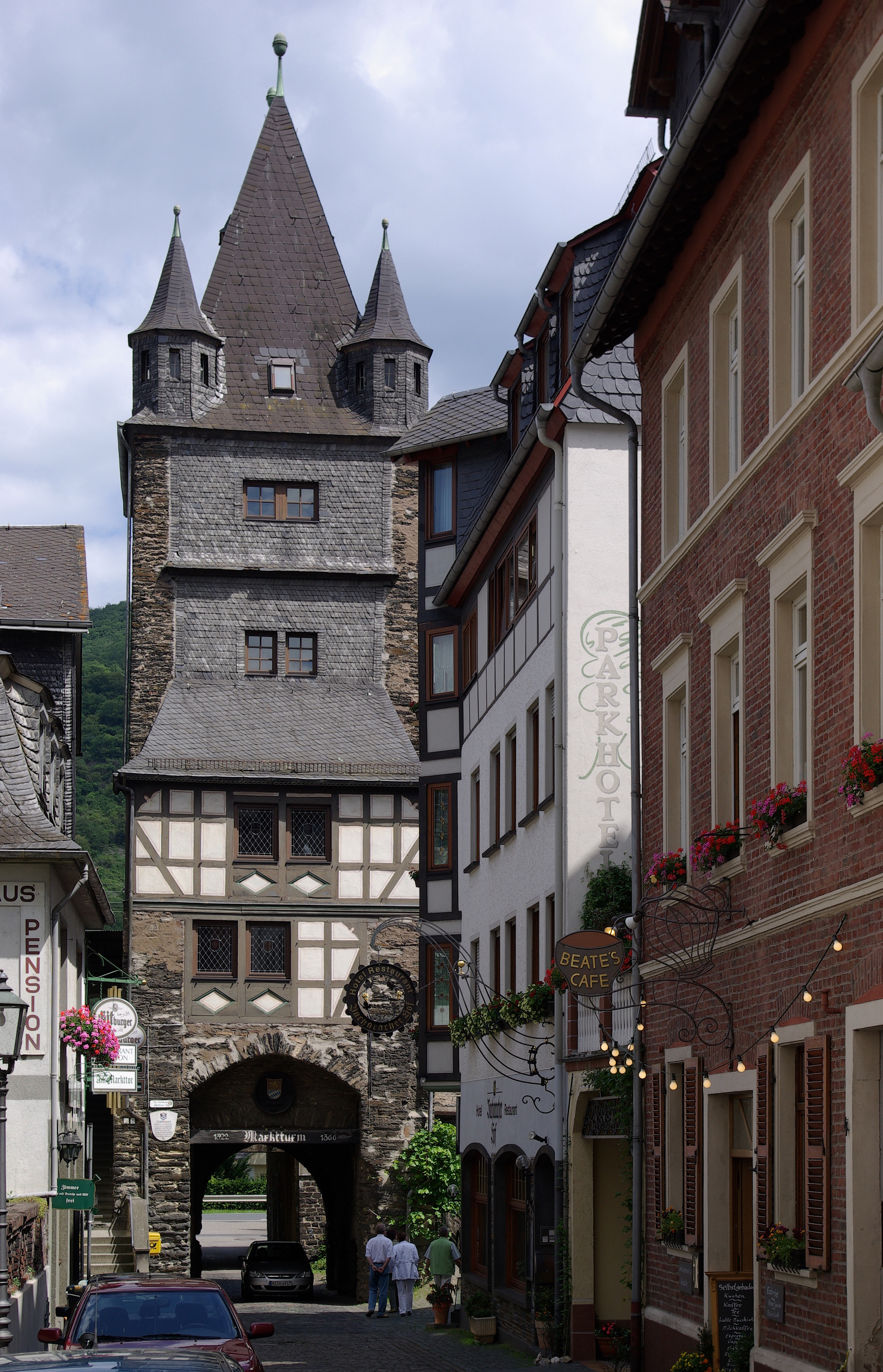 Germany, Bacharach at the rhine, Market street and Market tower